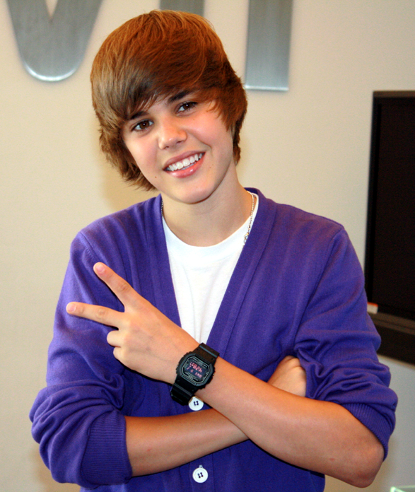 NYC signing September 1, 2009 at Nintendo Store - New York City, USA